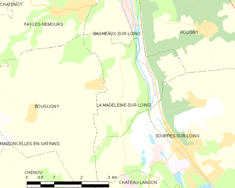 Map of French municipality La Madeleine-sur-Loing